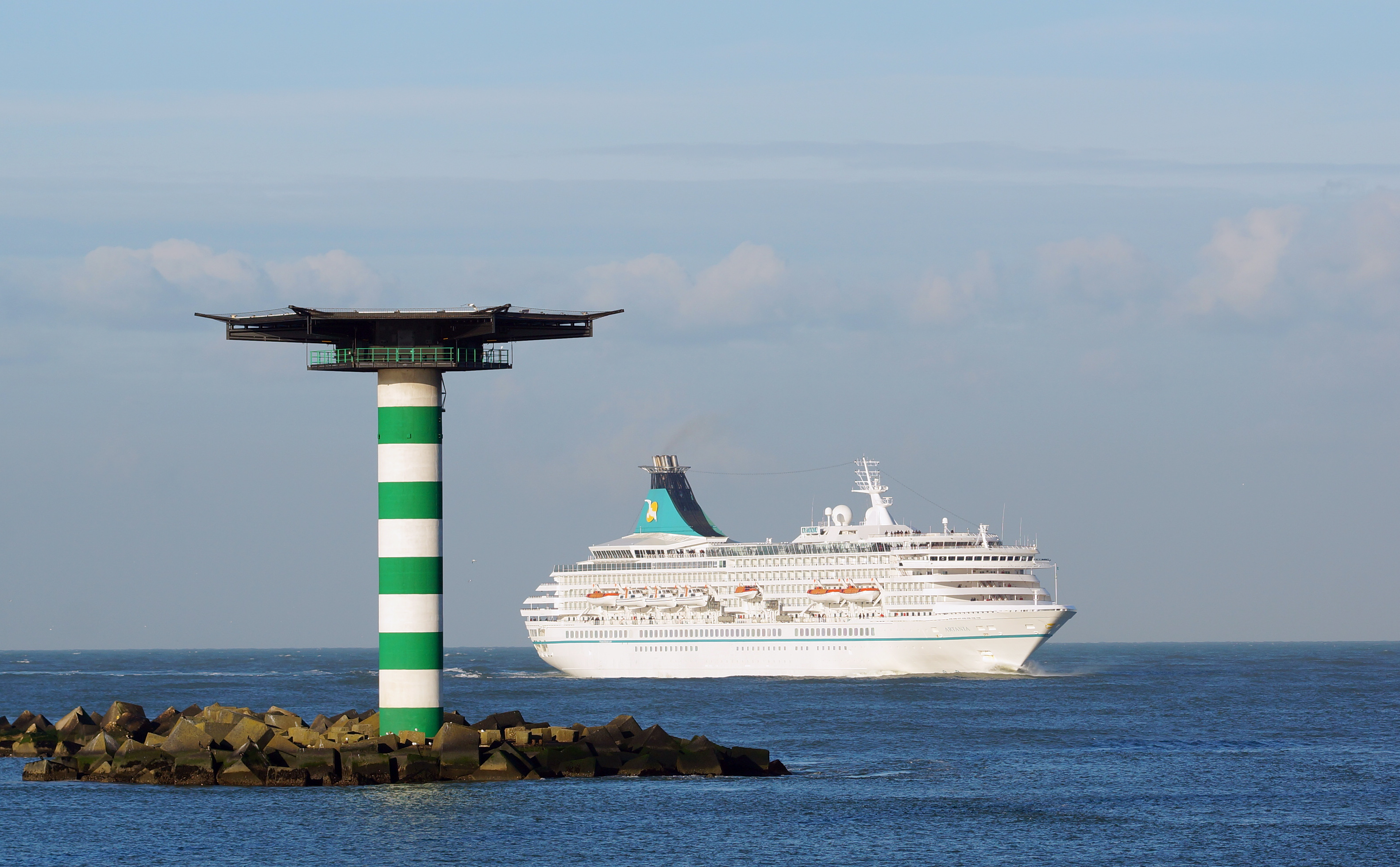 Cruise ship Artania, Maasmond 14-12-2014